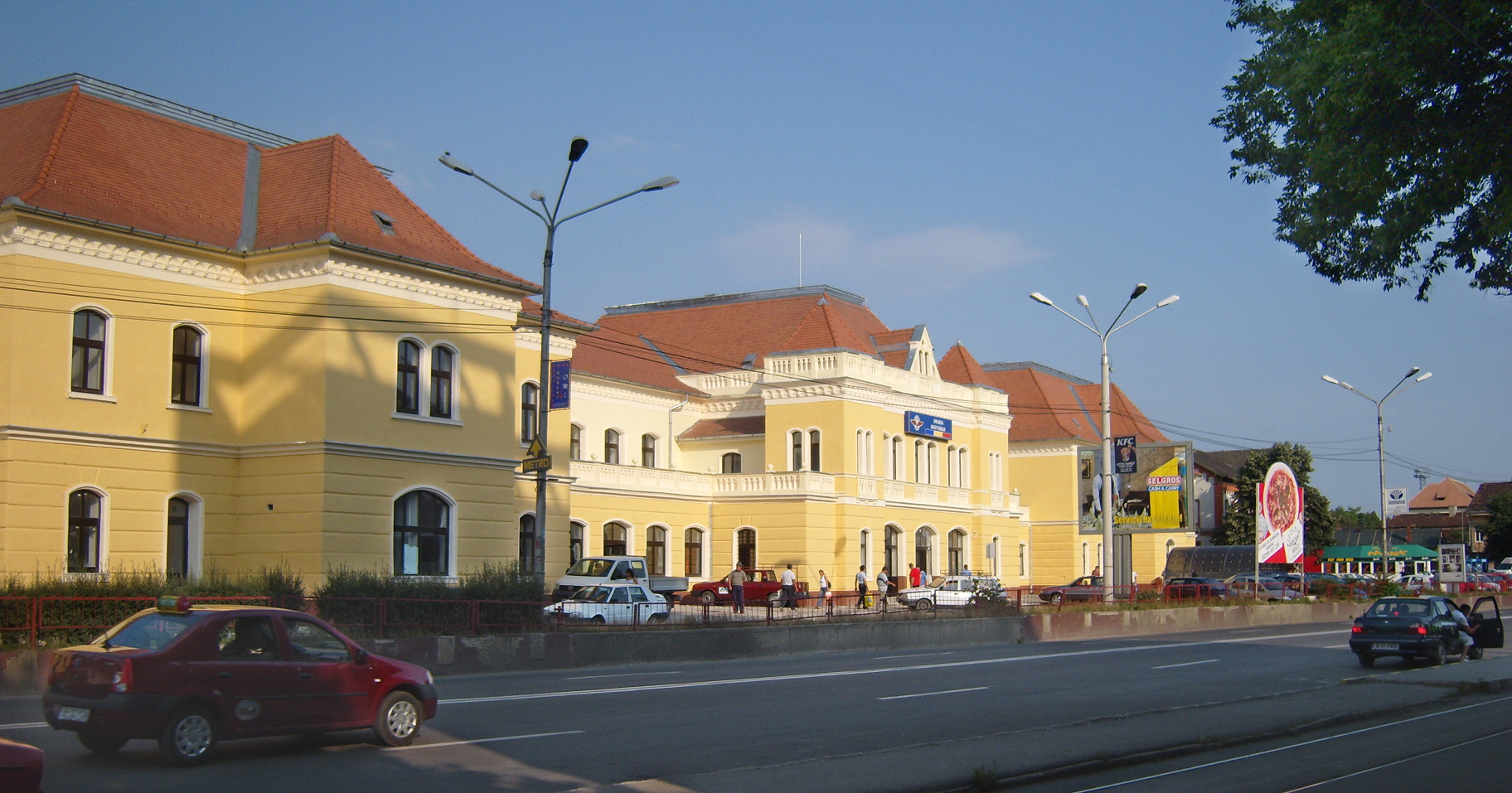 Oradea Train Station